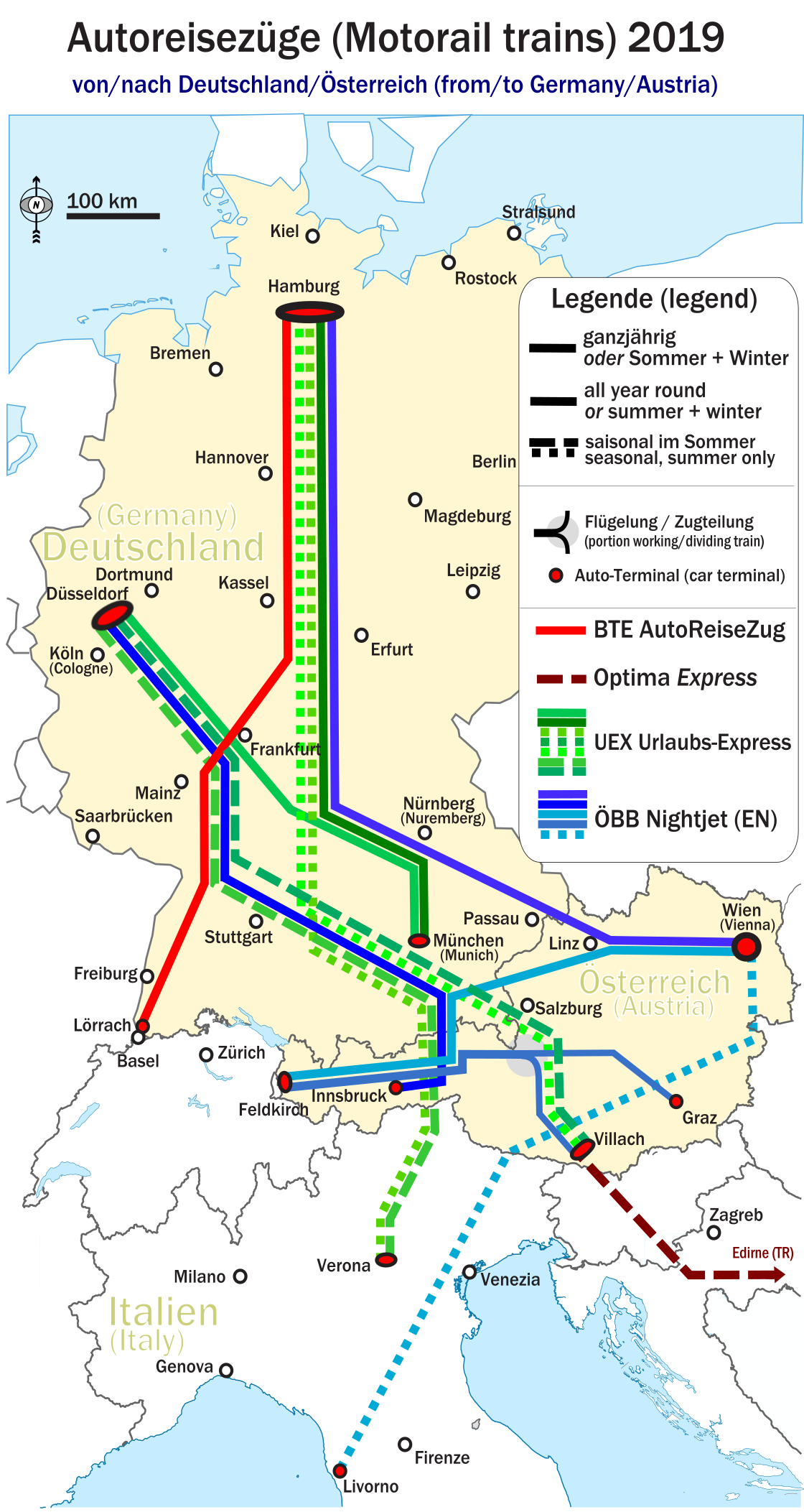 Long-distance Motorail Train services for December 2018 - December 2019 with car terminals in Germany and/or Austria. Short distance car shuttle trains are not included.